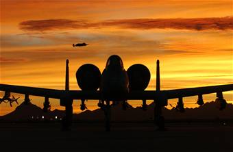 An A-10 at Davis-Montham AFB, Arizona Source: USAF